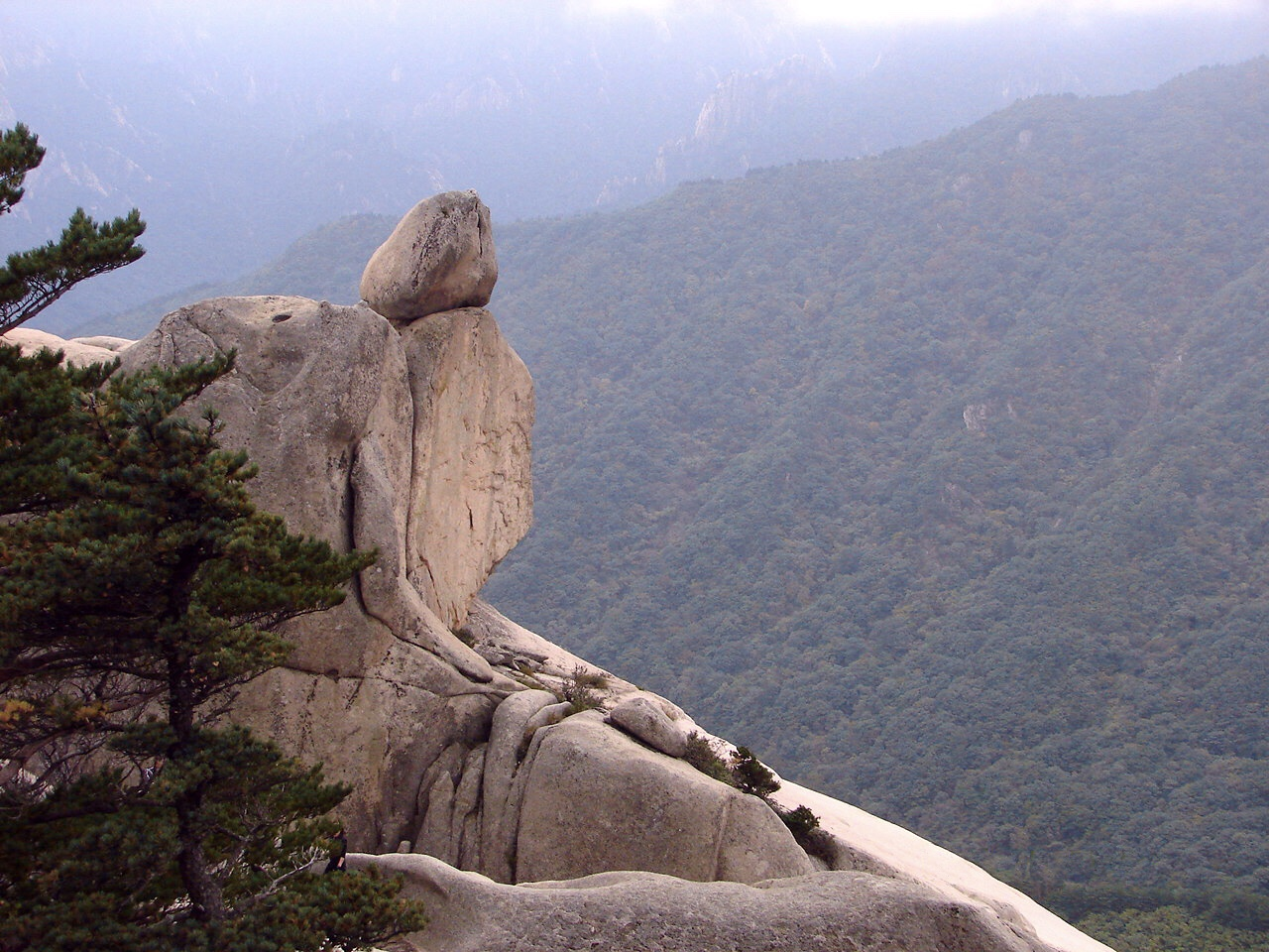 Seoraksan National Park near the top of Ulsanbawi